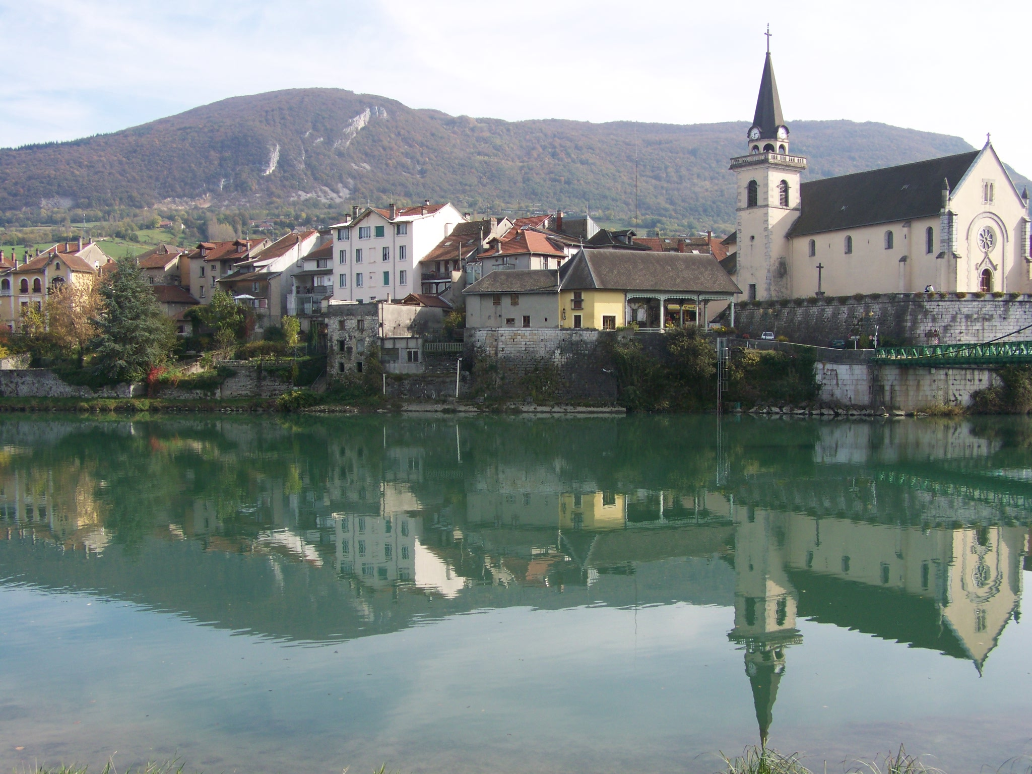 Sight of the Savoyan part of the two-departement belonging French village of Seyssel (Haute-Savoie, France).